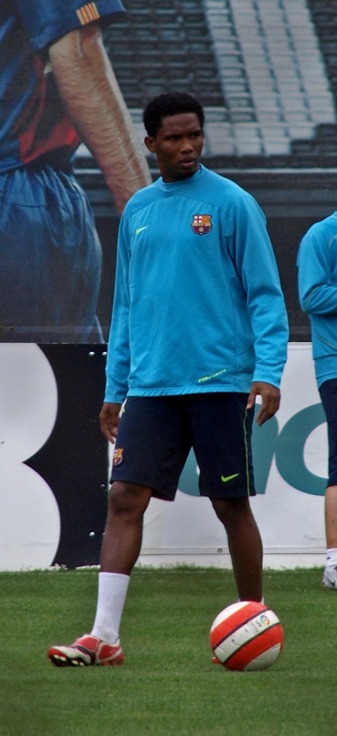 Samuel Eto'o (born March 10, 1981 in Douala) is a Cameroonian football striker who currently plays for FC Barcelona.